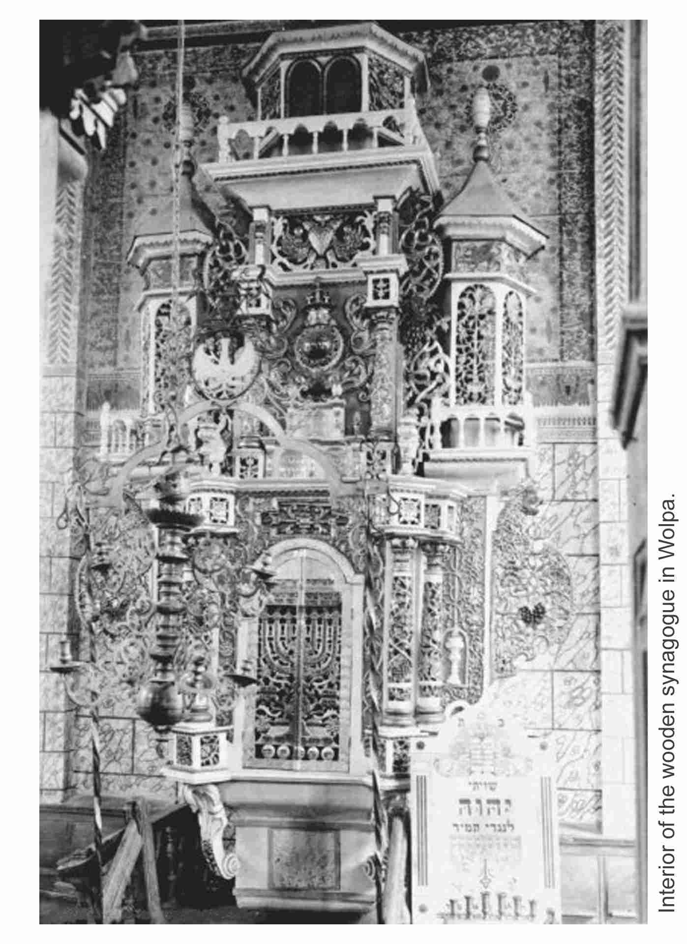 Wooden synagogue in Wolpa (Poland - now Belarus), destroyed by the Germans in 1940.(The Bima)